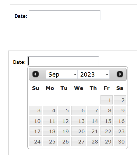 Example of a drop-down date picker, a calendar widget appearing below a text box